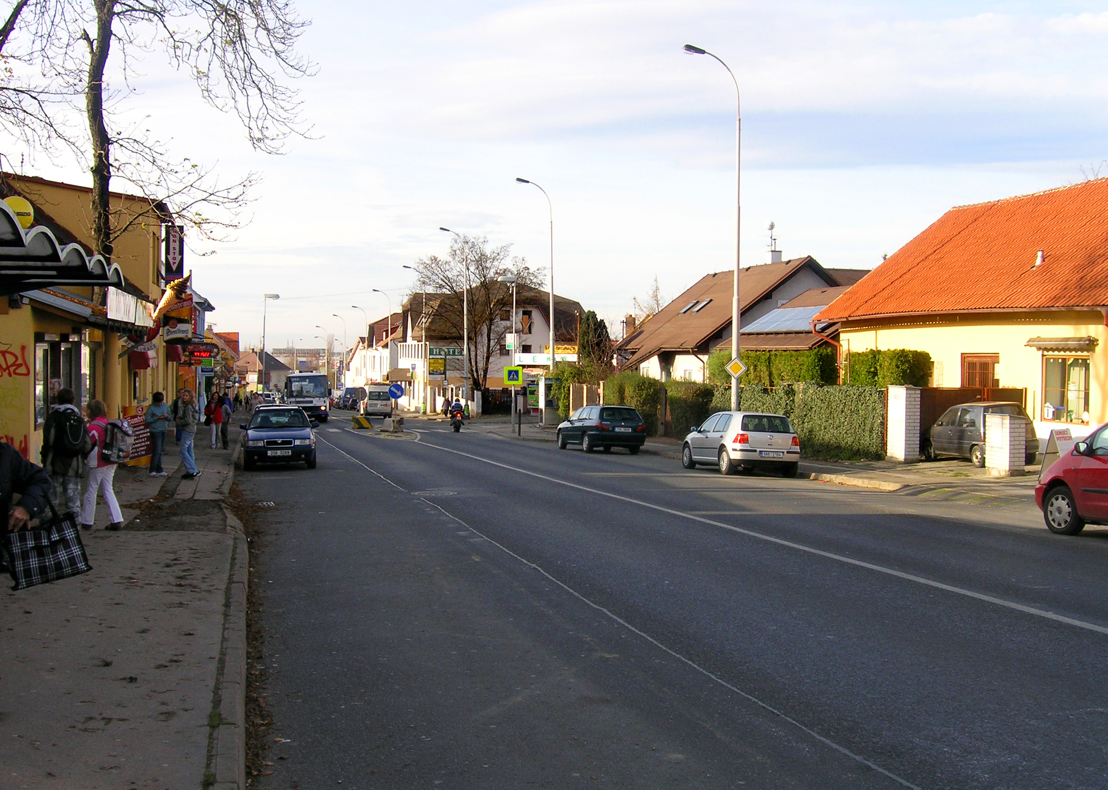 Černokostelecká street in the middle part of Říčany, Czech Republic